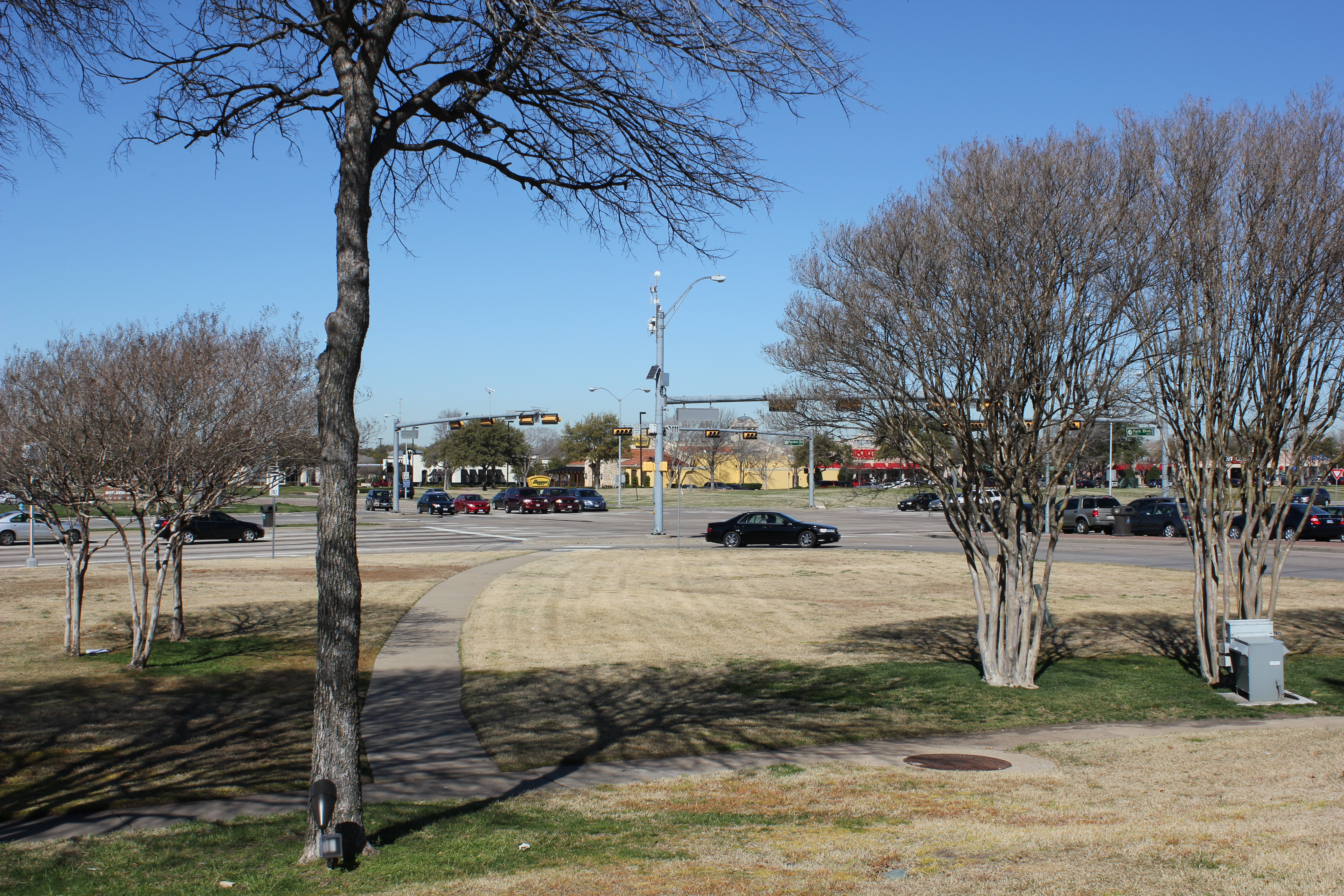 Intersection of Park and Preston in Plano Texas which is described as the "location" of Shepton